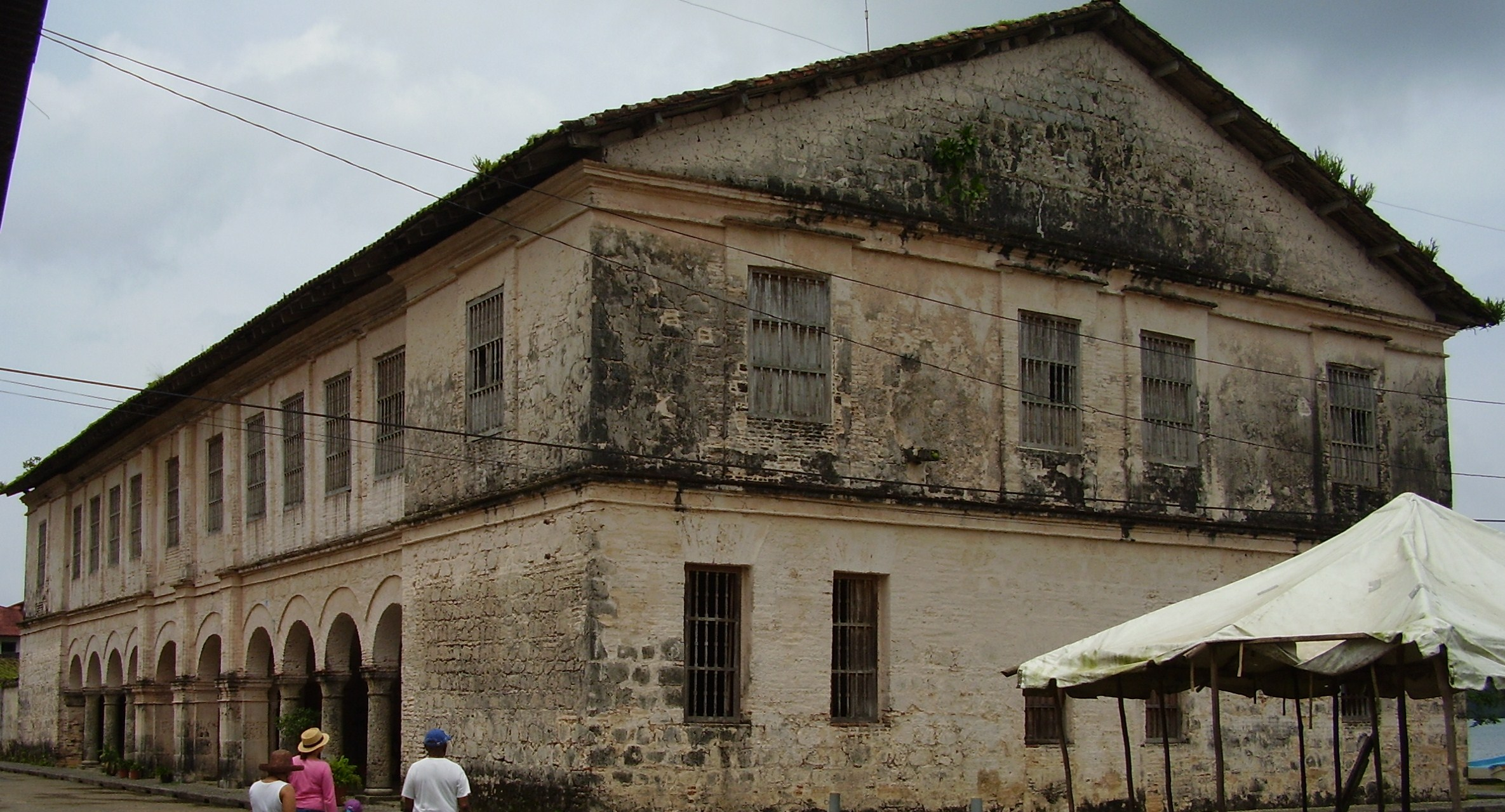 Edificio de la Aduana en Portobelo